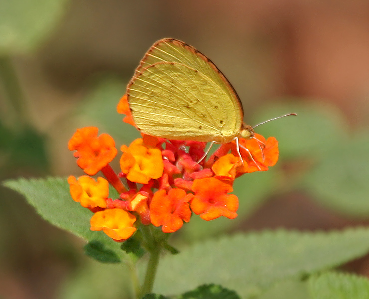 Eurema brigitta in Hyderabad, India.